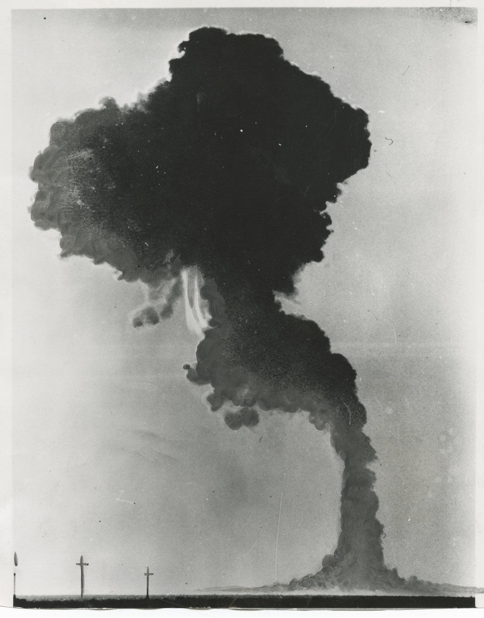 Press photograph, with grey gouache highlights, of the first nuclear test on the Australian mainland, Totem 1, which was carried out at Emu Field in the Great Victoria Desert, north-western South Australia on 15 October 1953. Verso with wet stamps dated OCT 19 1953, and pastedown newspaper clipping (from an American newspaper): 'ATOMIC CLOUD: In South Australia - A cloud formed over the Woomera rocket range after a recent atomic test conducted by British scientists. - A.P. wirephoto